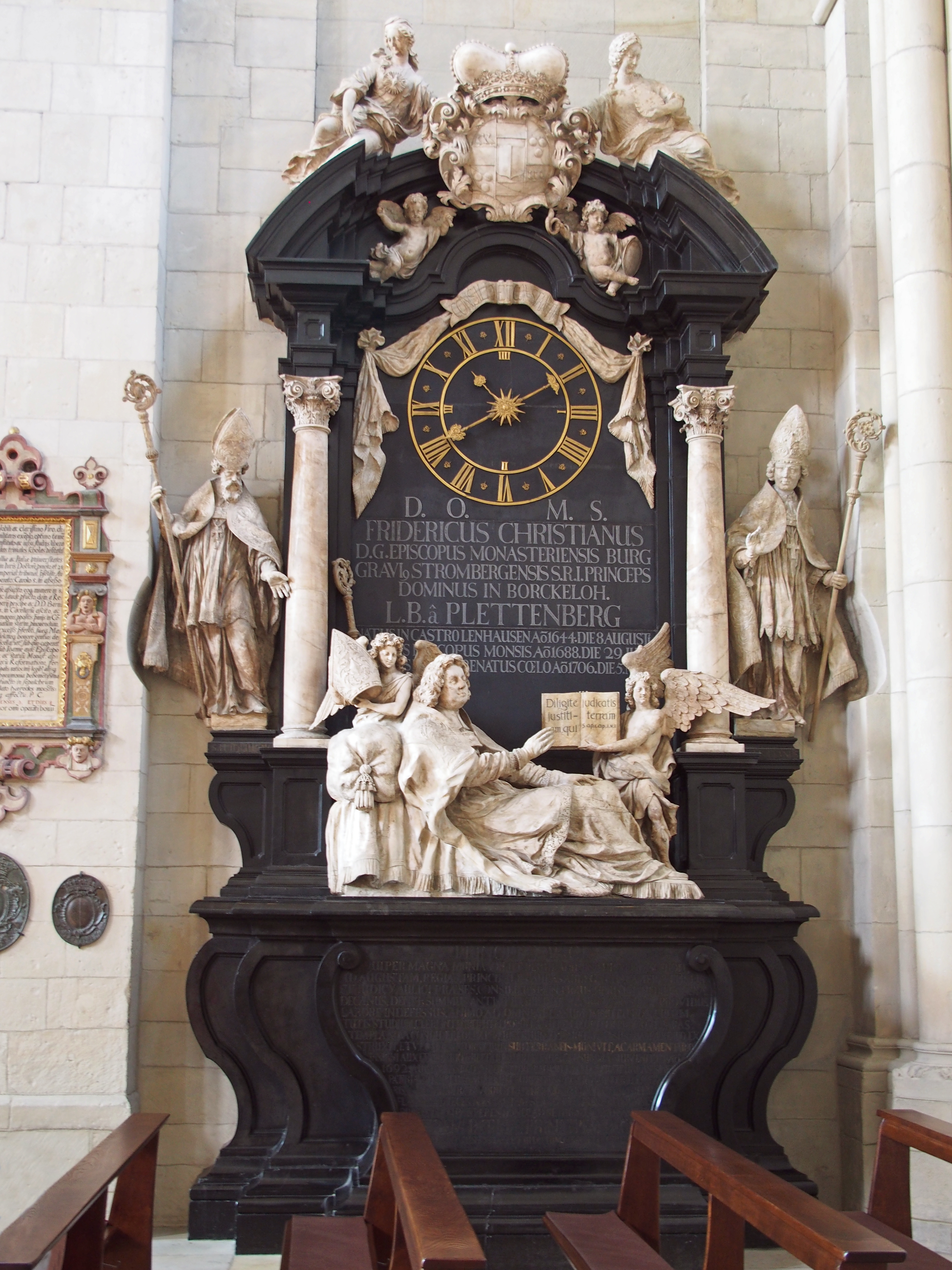 Grave of Friedrich Christian von Plettenberg, Bishop of Münster, in the cathedral of Münster, Westphalia, Germany